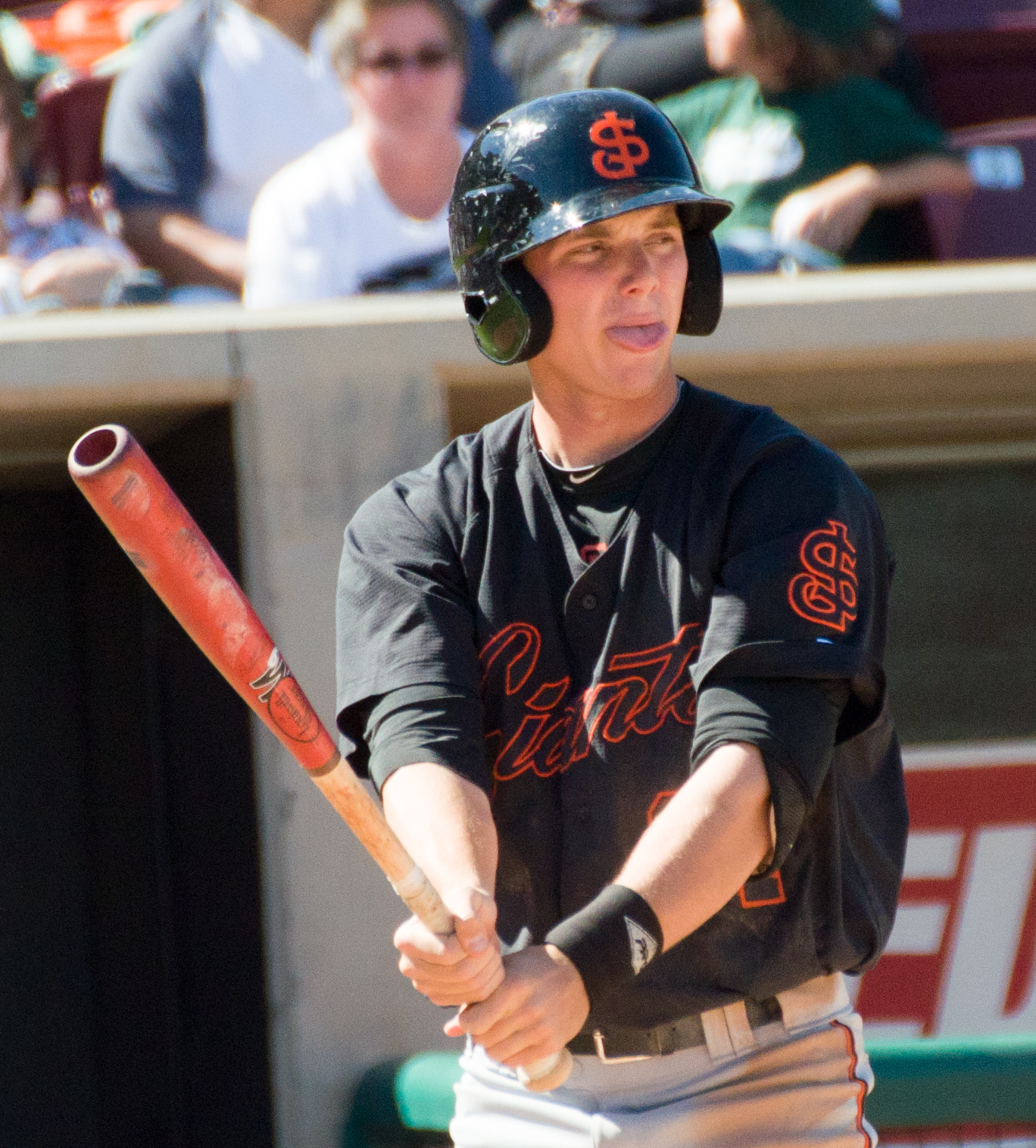 Outfielder Gary Brown of the San Jose Giants, San Francisco farm team 2011